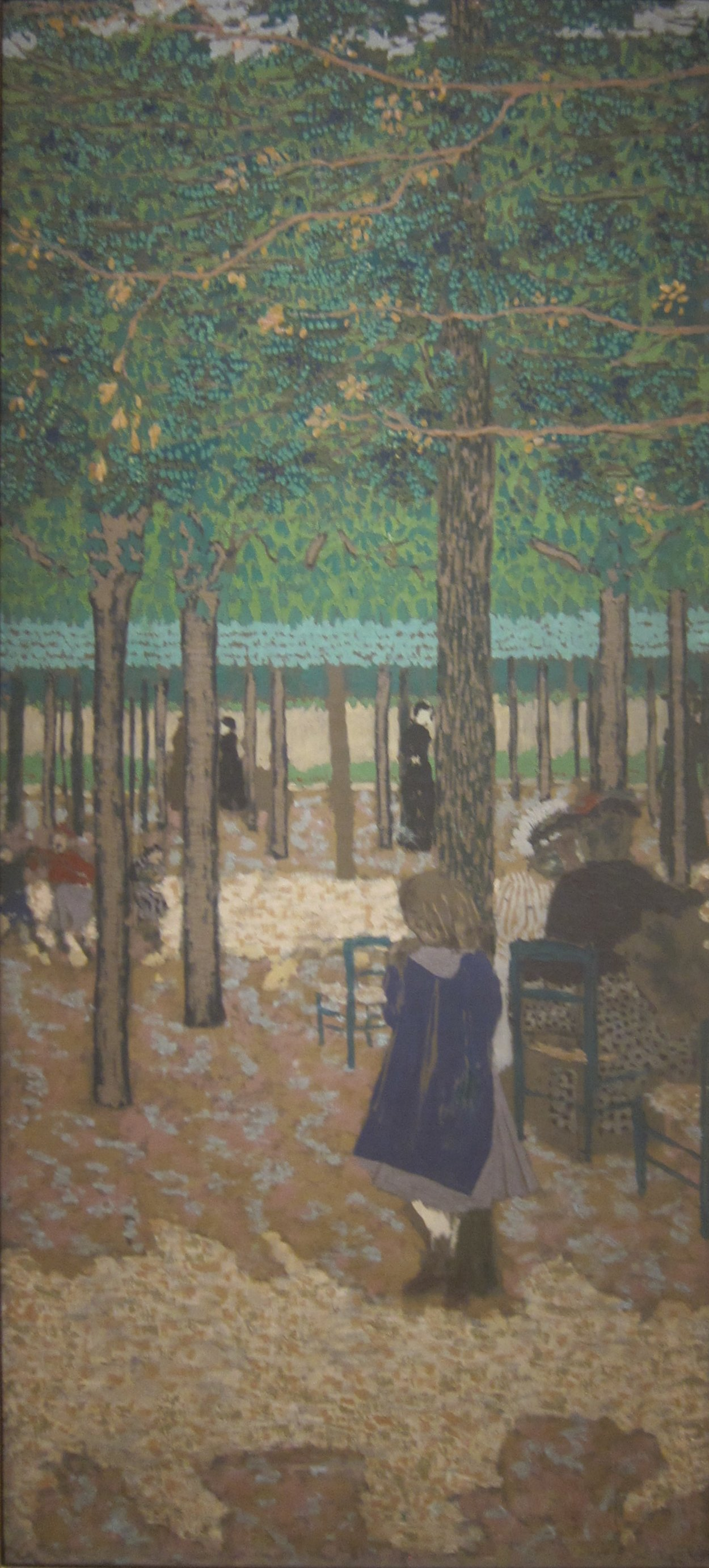 Under the Trees (from The Public Gargens), distemper on fabric painting by Édouard Vuillard, 1894, Cleveland Museum of Art